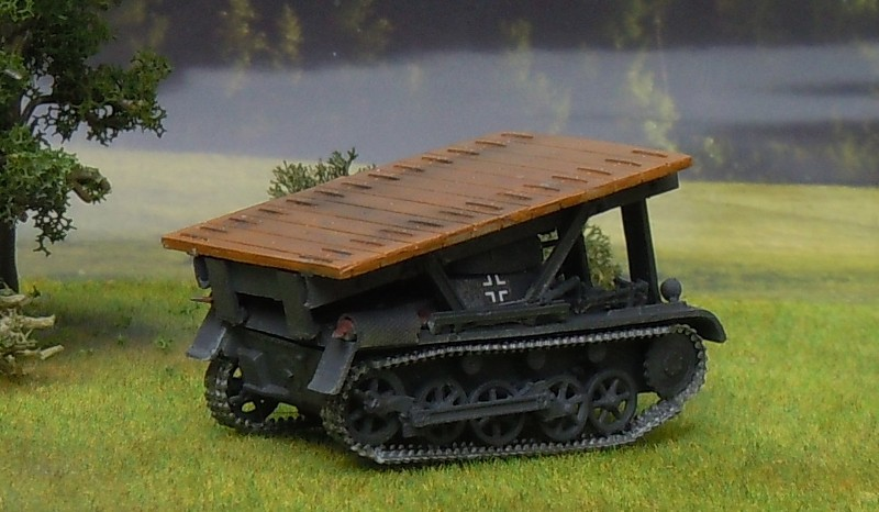 Model of a Brückenleger I. More pics of the same model are in